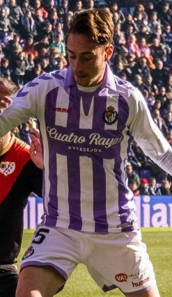 Real Valladolid - Rayo Vallecano, 18th fixture of the 2018-19 La Liga, January 5, 2019.